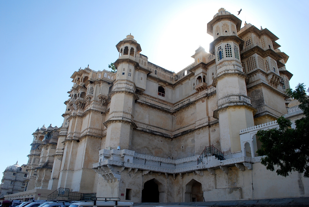 Udaipur City Palace